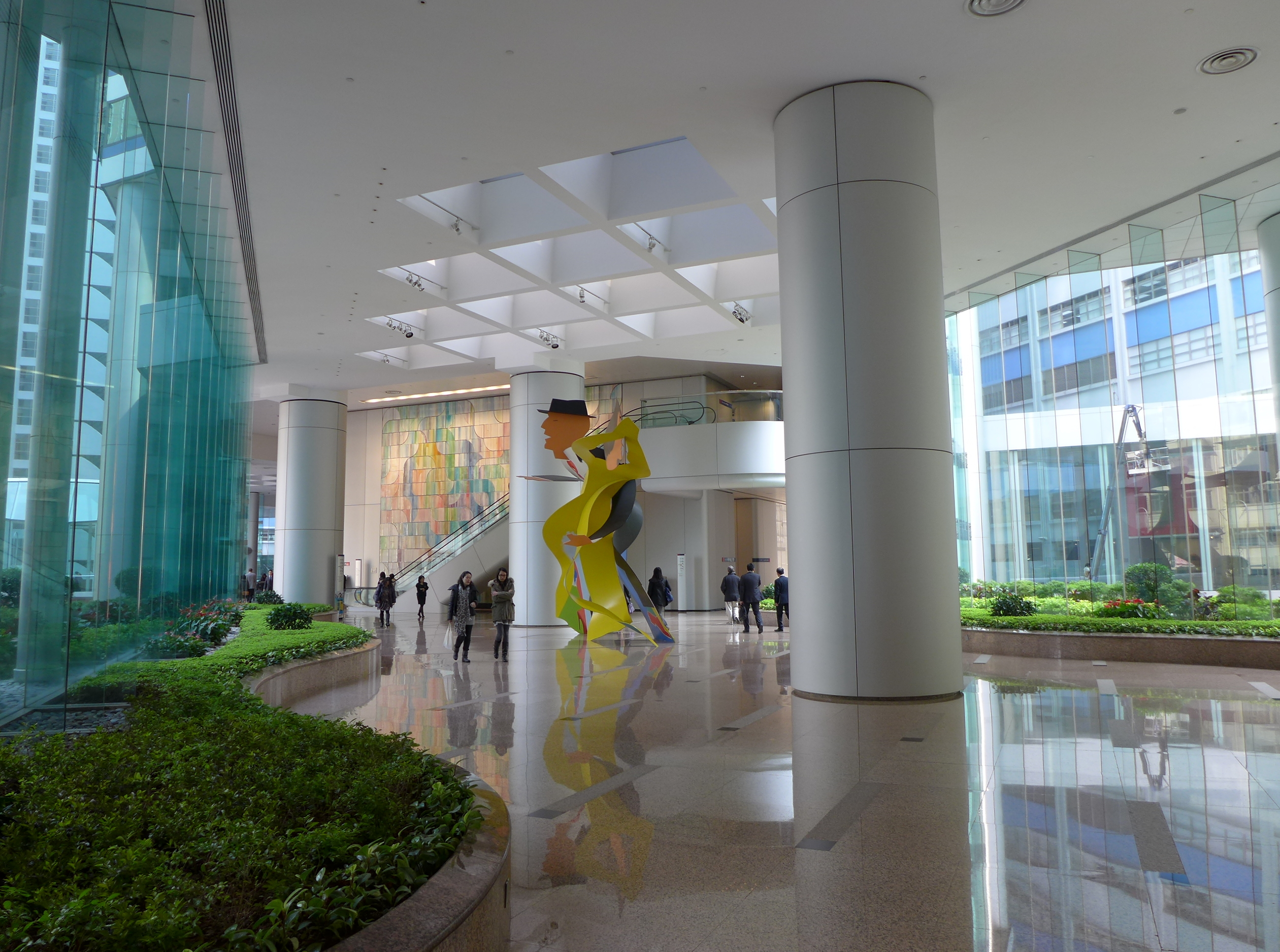 Dorset House Lobby Access